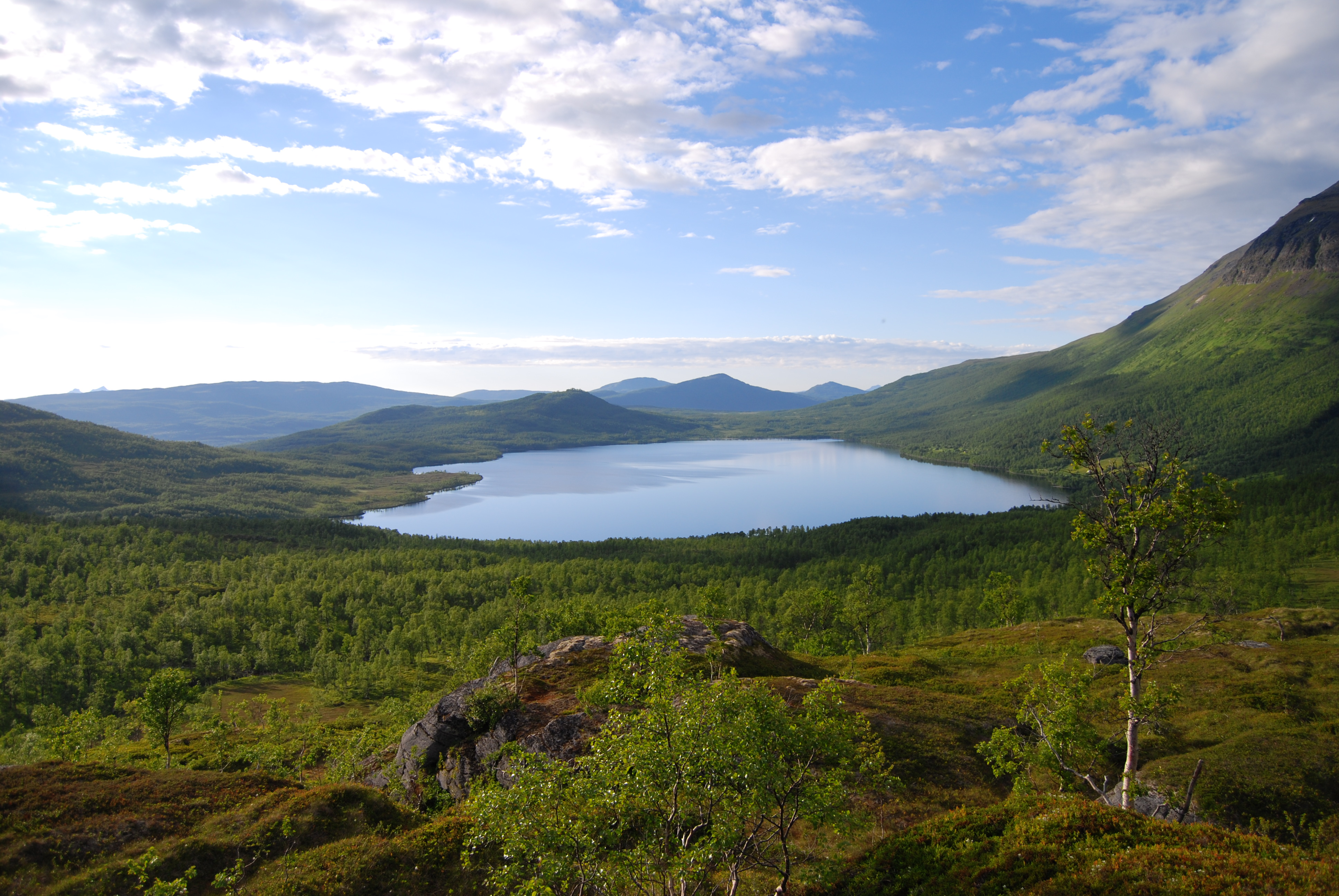 Tårnvatnet lake, Lenvik, Norway.